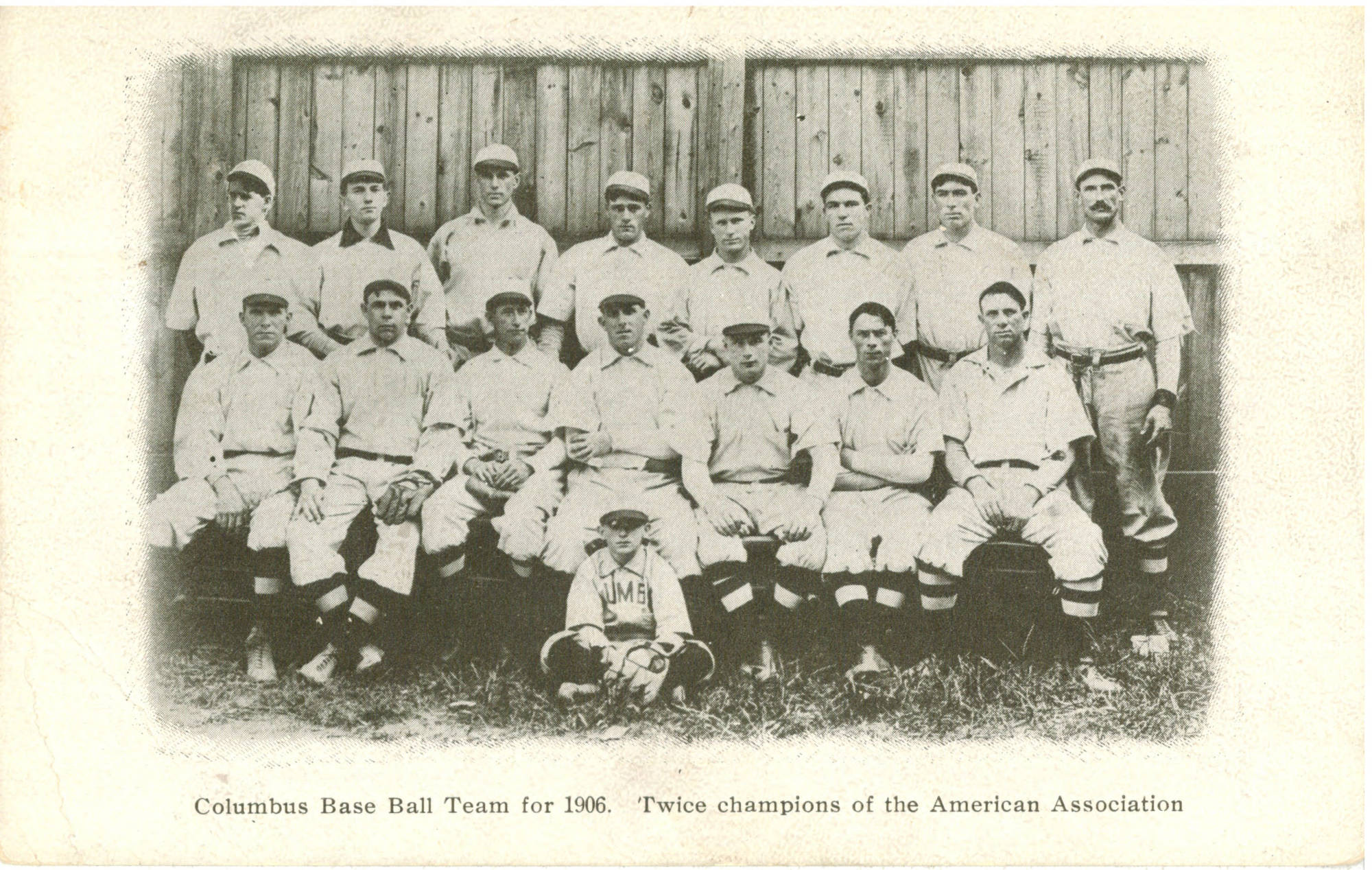 This is a postcard of the Columbus Senators baseball team in 1906. They were twice Champions of the American Association by 1906, three total during their time with the American Association. The Columbus Senators began in 1888. In 1931, the Saint Louis Cardinals took control of the team as part of their developing team and renamed them the Columbus Red Birds. They played their games at Recreation Park in German Village and at Neil Park on Cleveland Avenue. Rights Statement No copyright in the United States